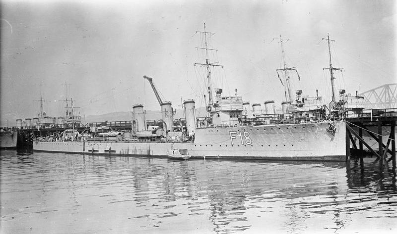 Photograph of British Admiralty M class destroyer HMS Paladin.